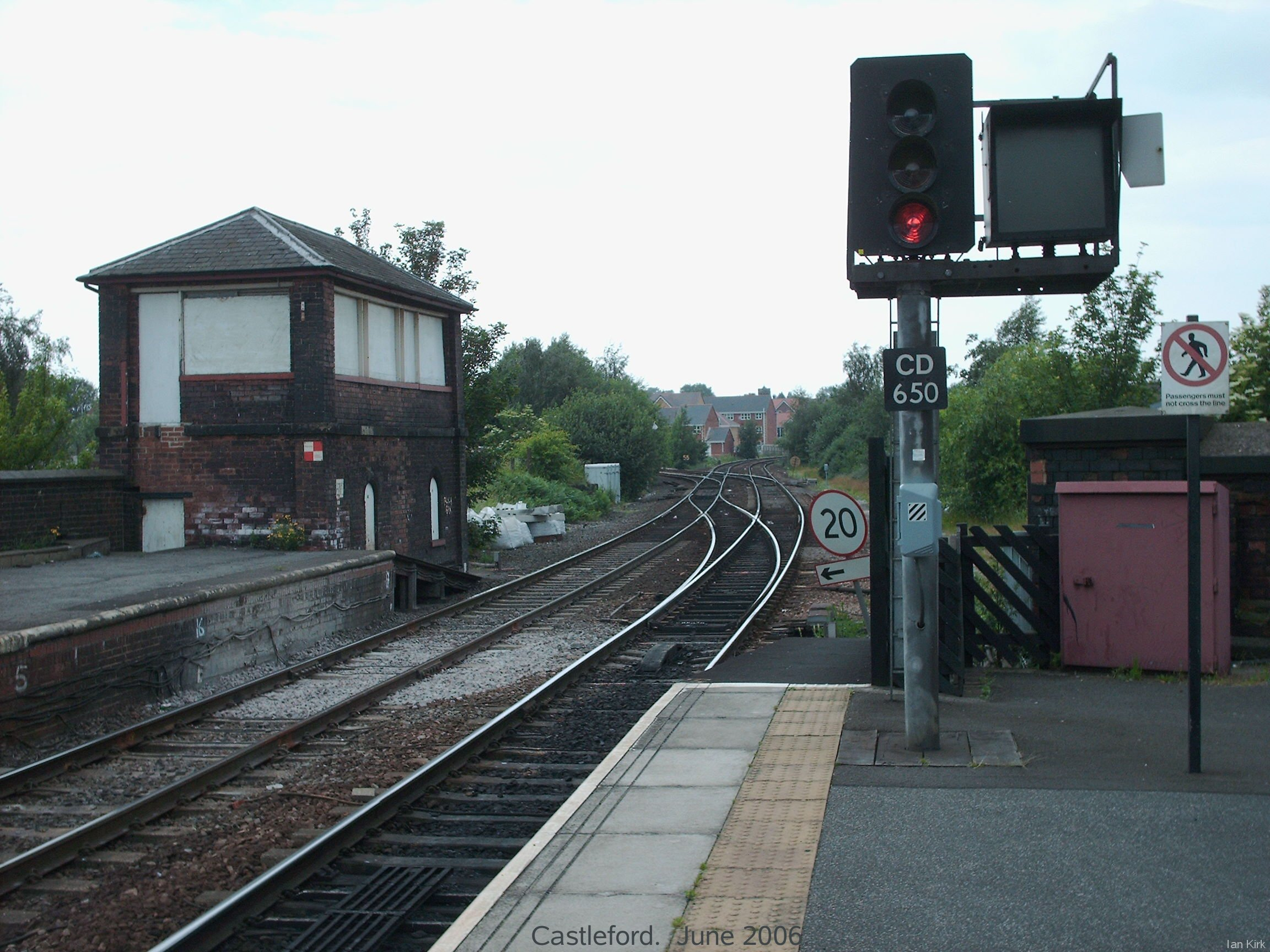 Castlford railway station, West Yorkshire, England. Platform 1.